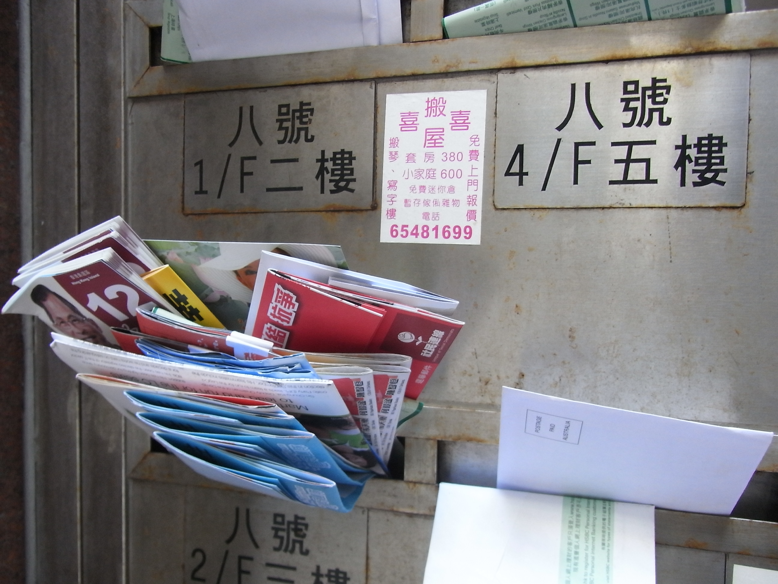 中環, Central, Hong Kong